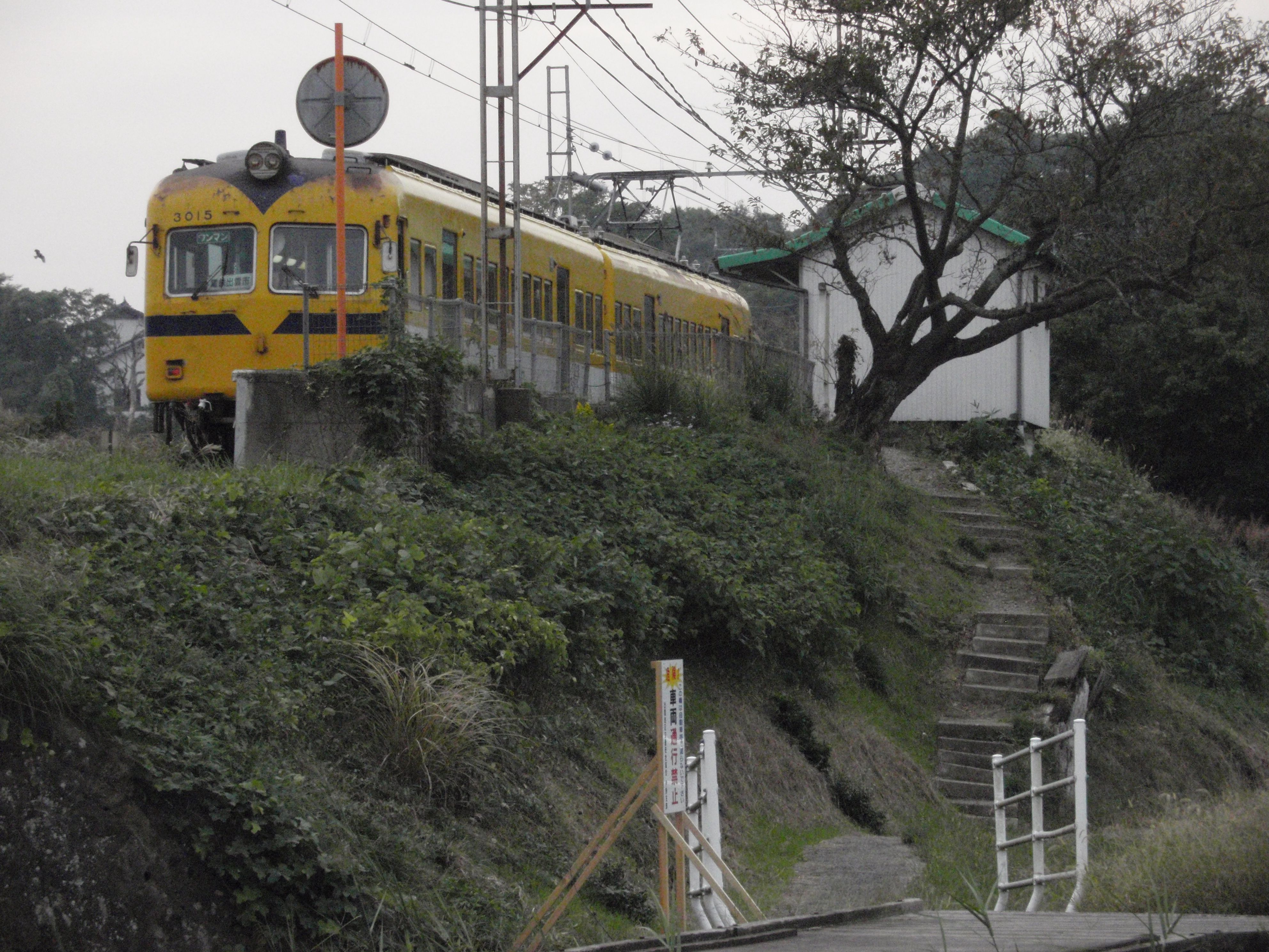 Inonada Station mid-distant view